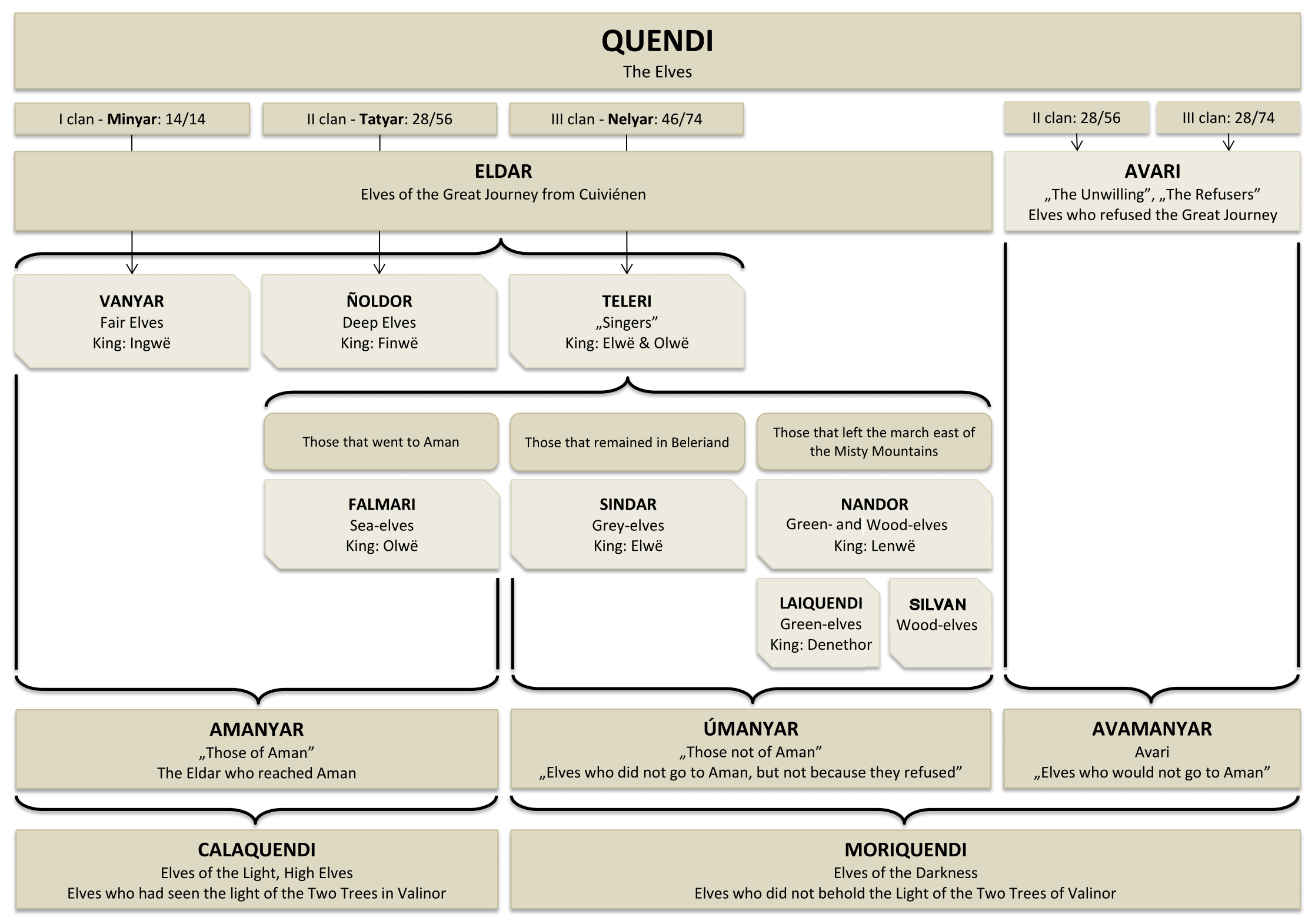 The Sundering of Elves and names given to their divisions Legend: Rectangles colours: groups of elves mostly consisting of tribes, tribes which set out on the Great Journey and those which were created due to splits of those tribes. Explanation: Avari is both a group of elves who refused to set out on the Great Journey and a name of a tribe which stayed in Cuiviénen. Numbers – number of elves who joined a tribe / number of elves in a clan. Arrows – relocation of the elves from clans to tribes.